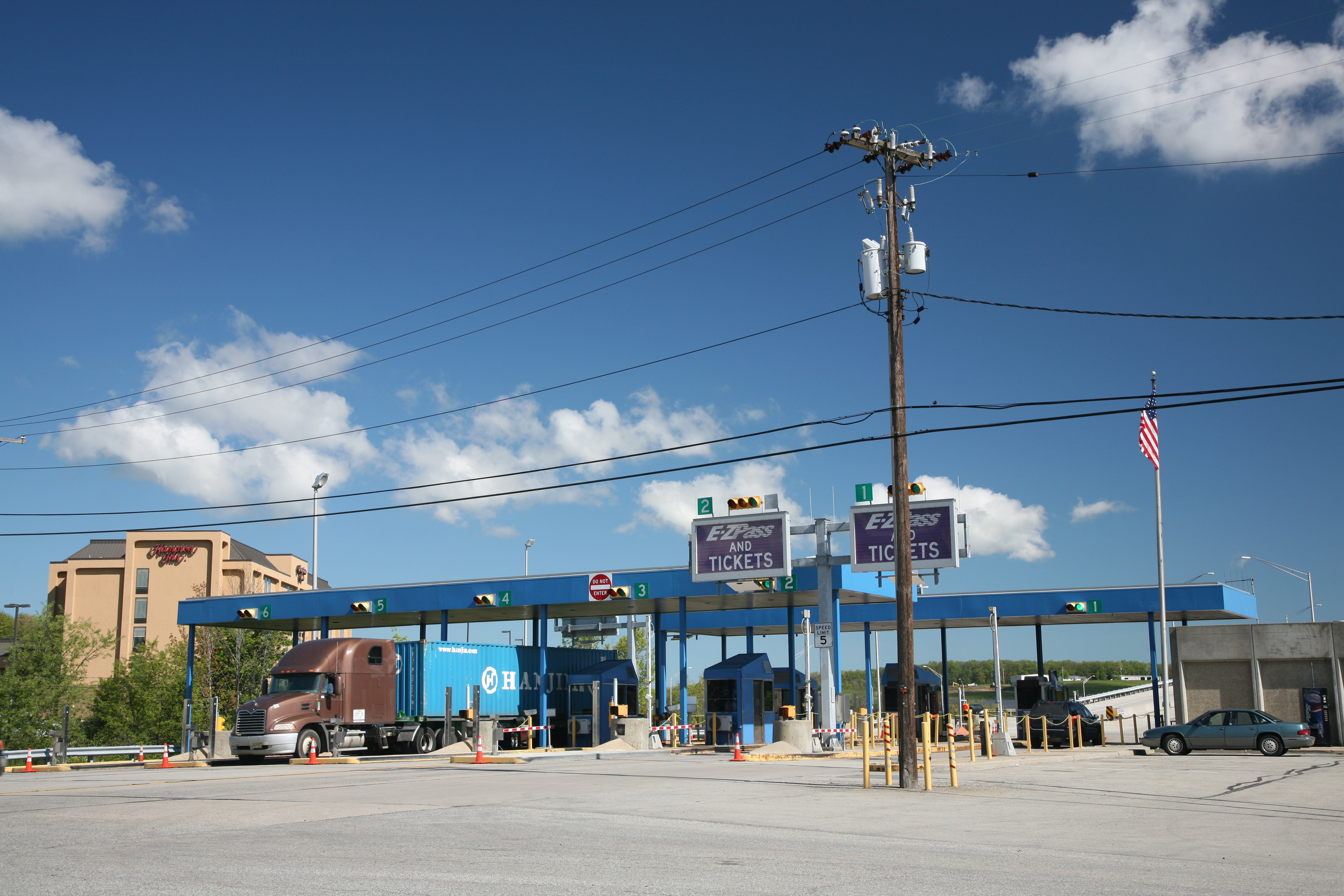 Pennsylvania Turnpike toll plaza in Sommerset, PA, USA